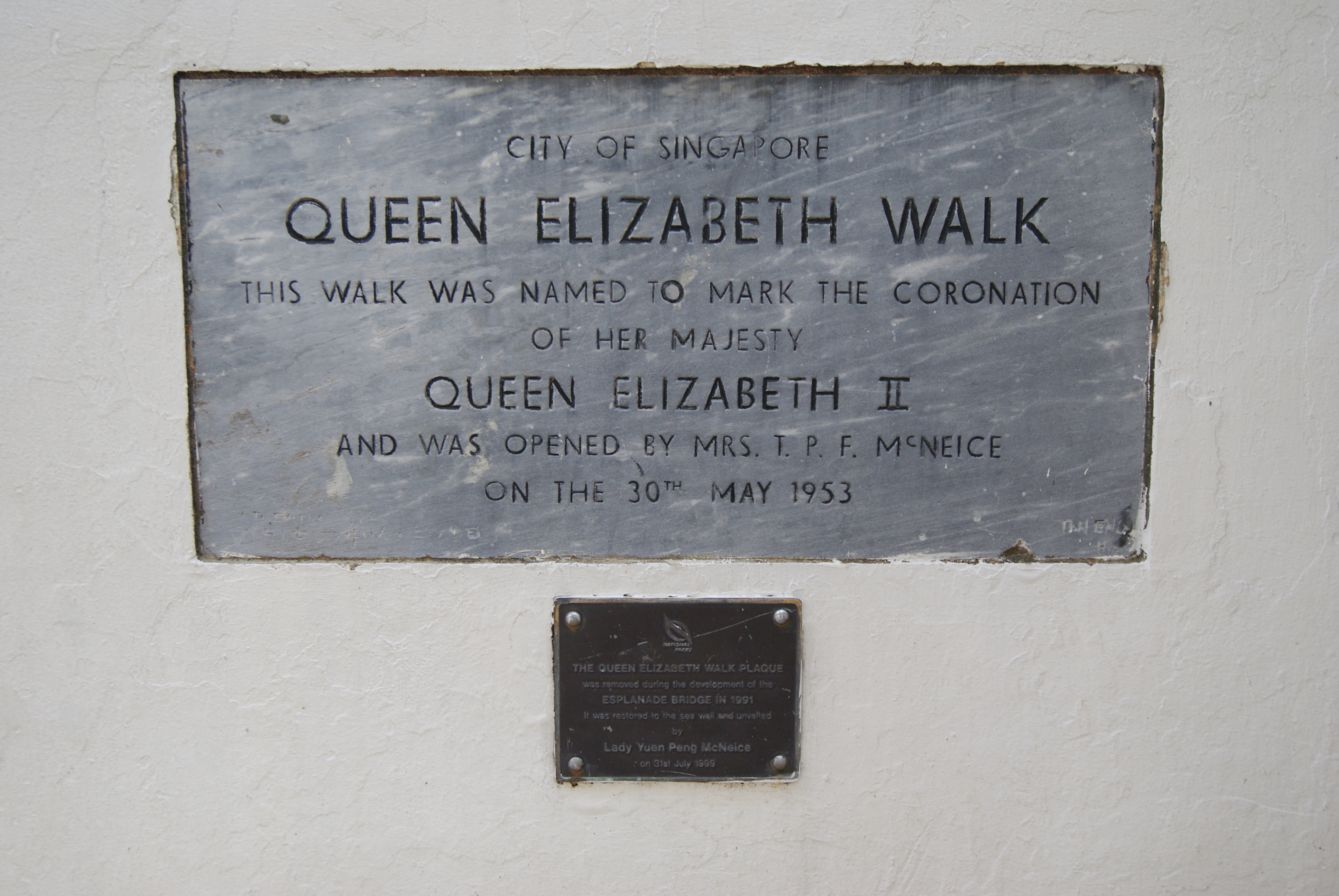 A plaque commemorating the naming of Queen Elizabeth Walk to commemorate Elizabeth II's coronation and its opening on 30 May 1954.